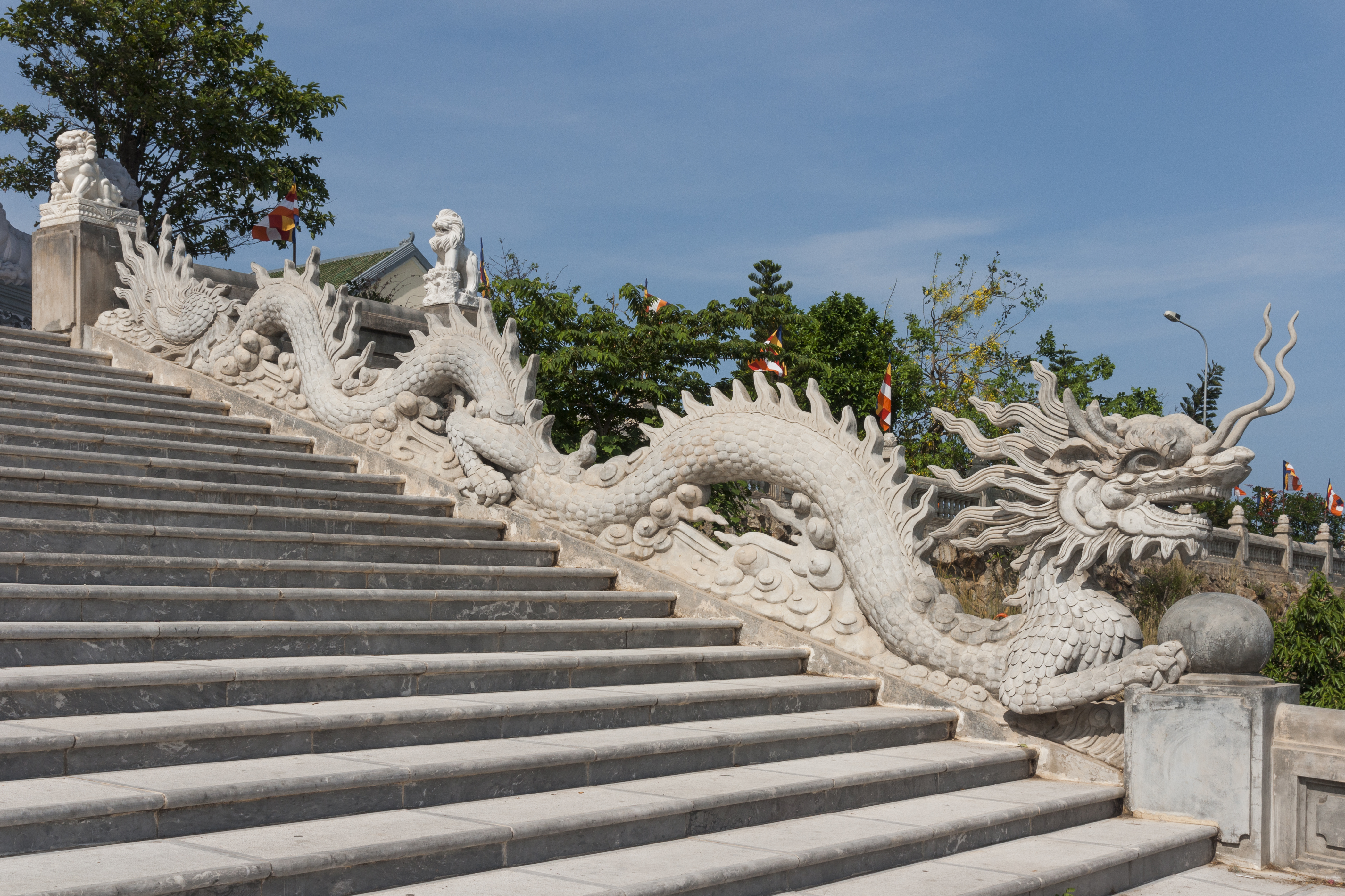 Son Tra Peninsula, Da Nang, Vietnam: Dragon decoration of a stair in Linh Ung Pagoda